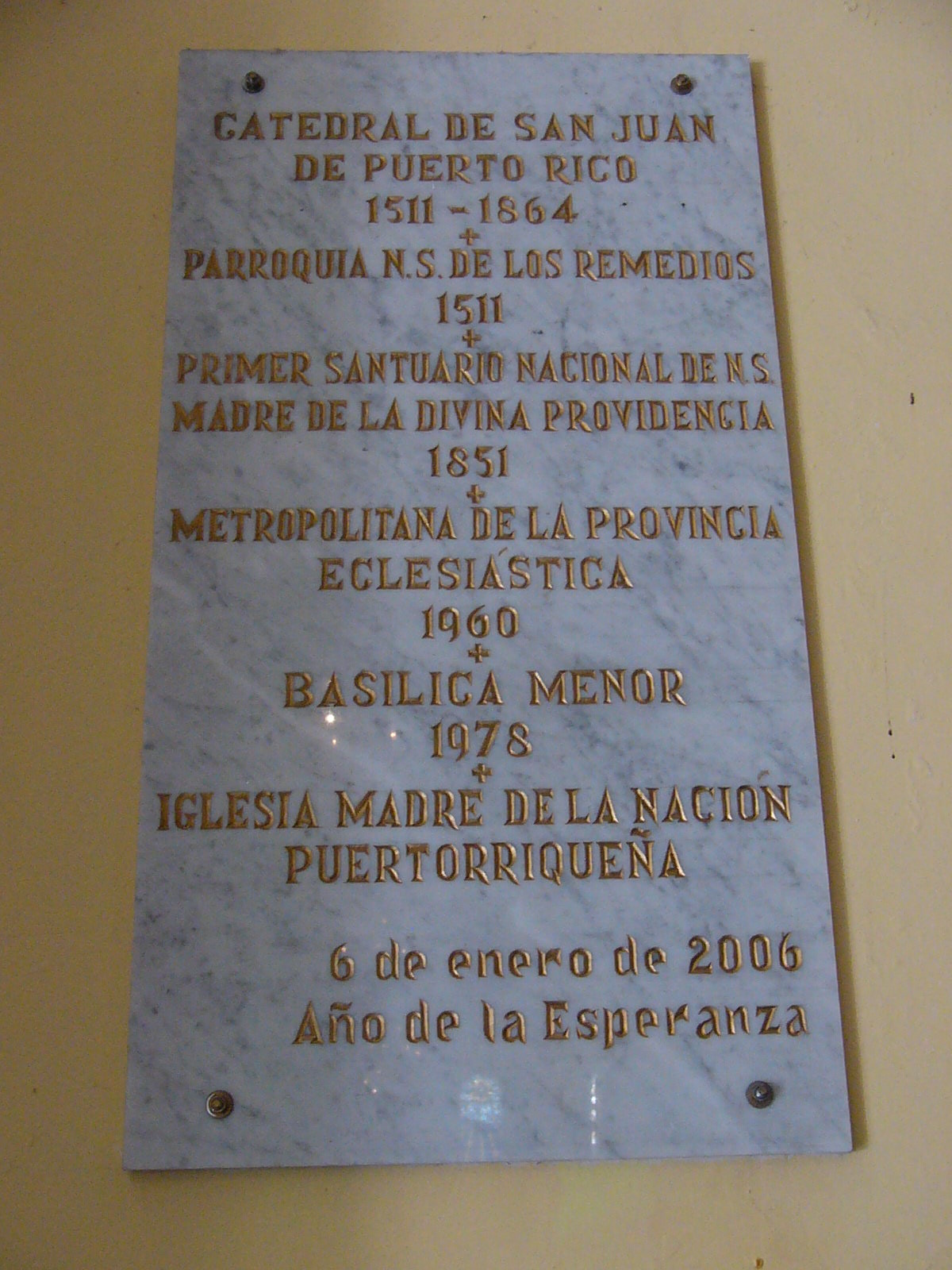 Plaque on interior wall of Cathedral of San Juan Bautista in San Juan, Puerto Rico